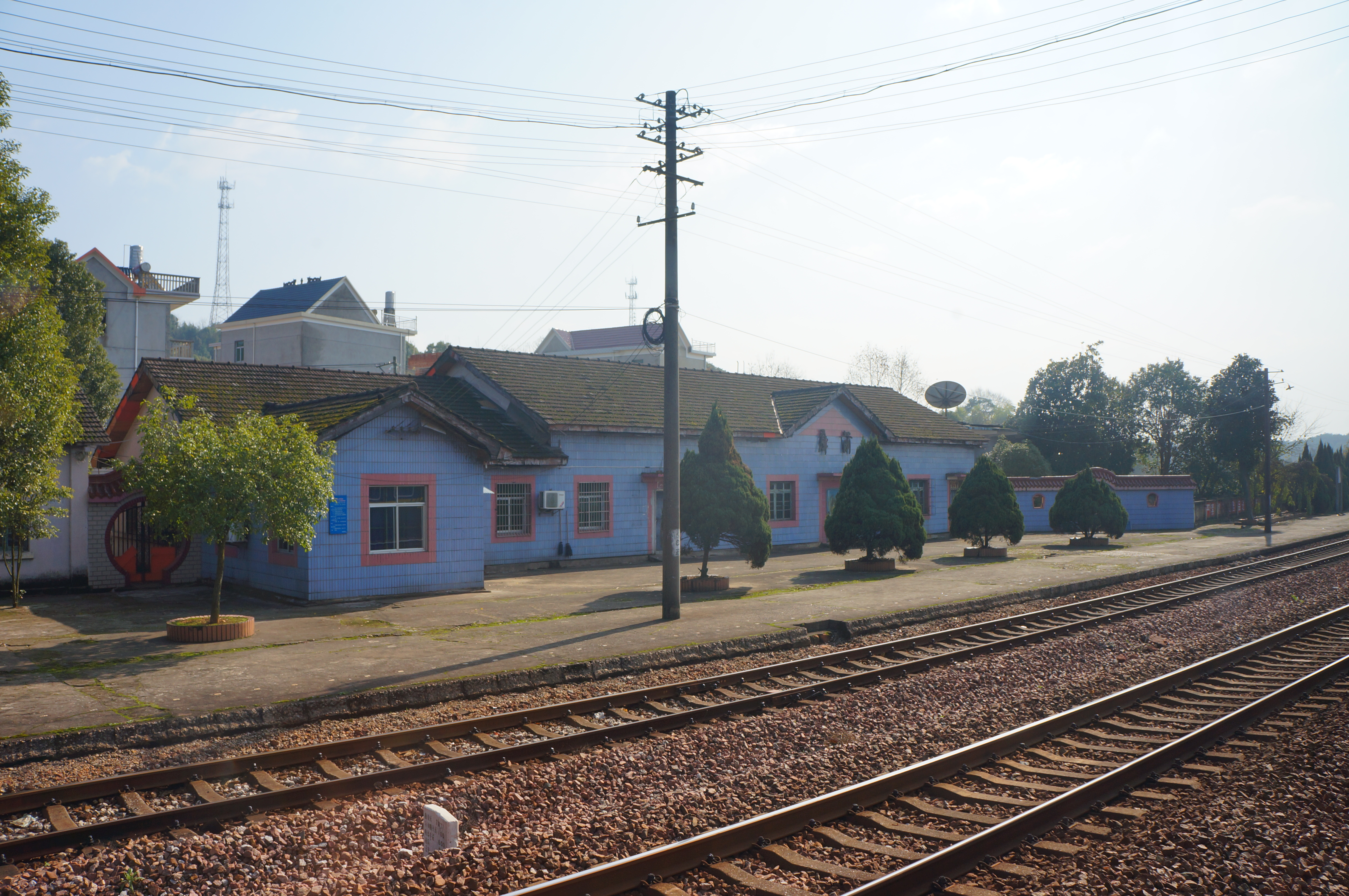 201612 Kuqian Station. Our train was stopped here in order to make way for K45